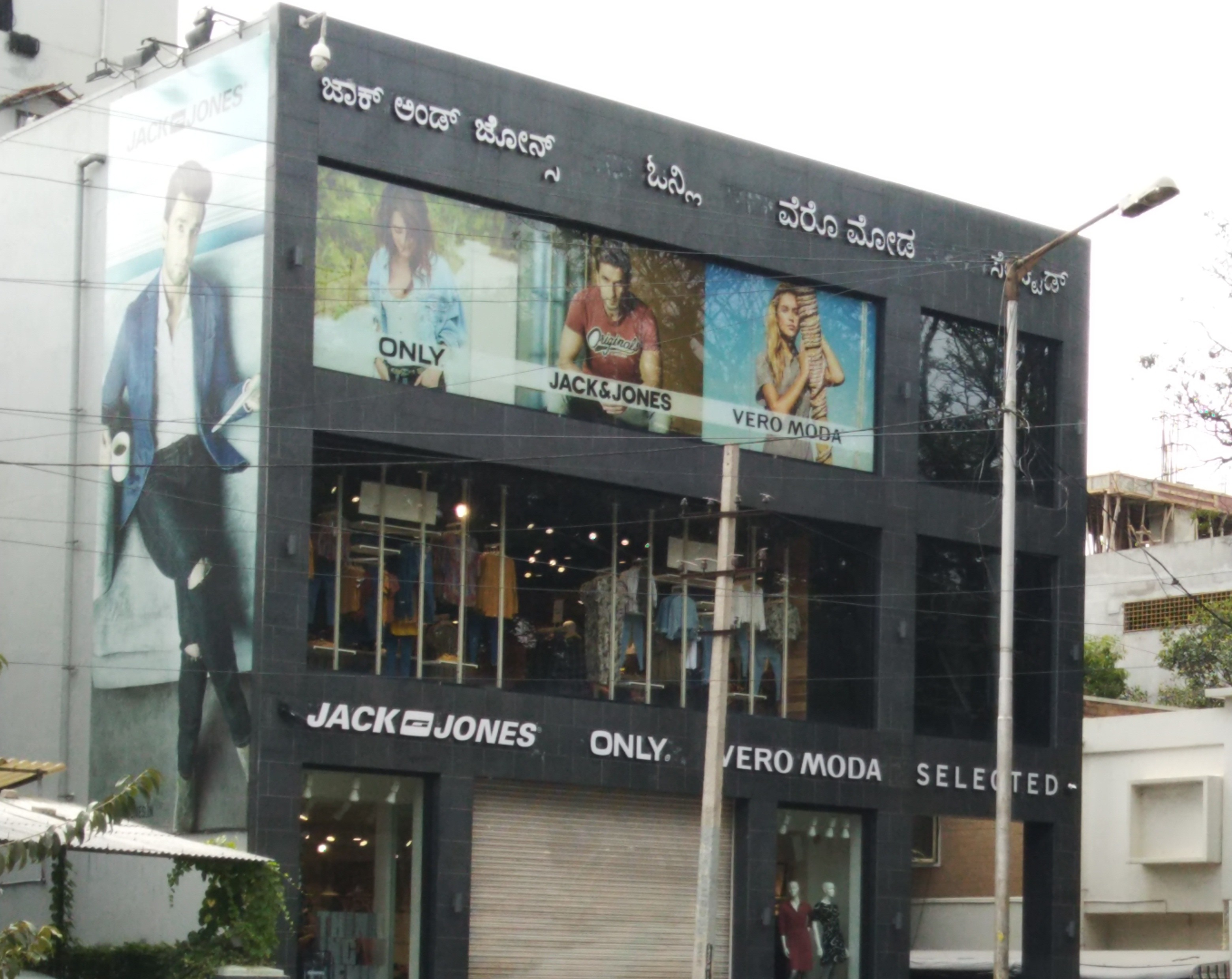 Jack & Jones store on 100 ft road Indiranagar, Bengaluru, India.